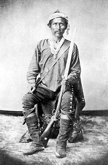 Navajo War Chief Barboncito